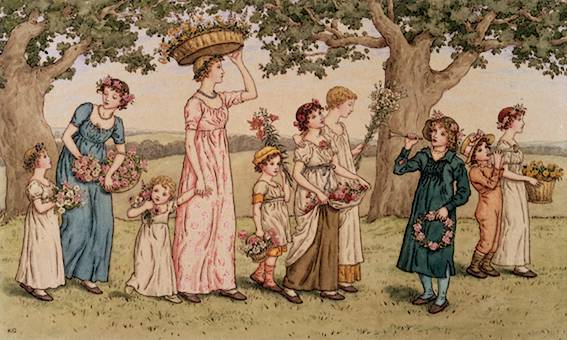 May Day by Kate Greenaway. Image from